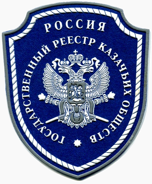 Реестр казачьих обществ России (шеврон)